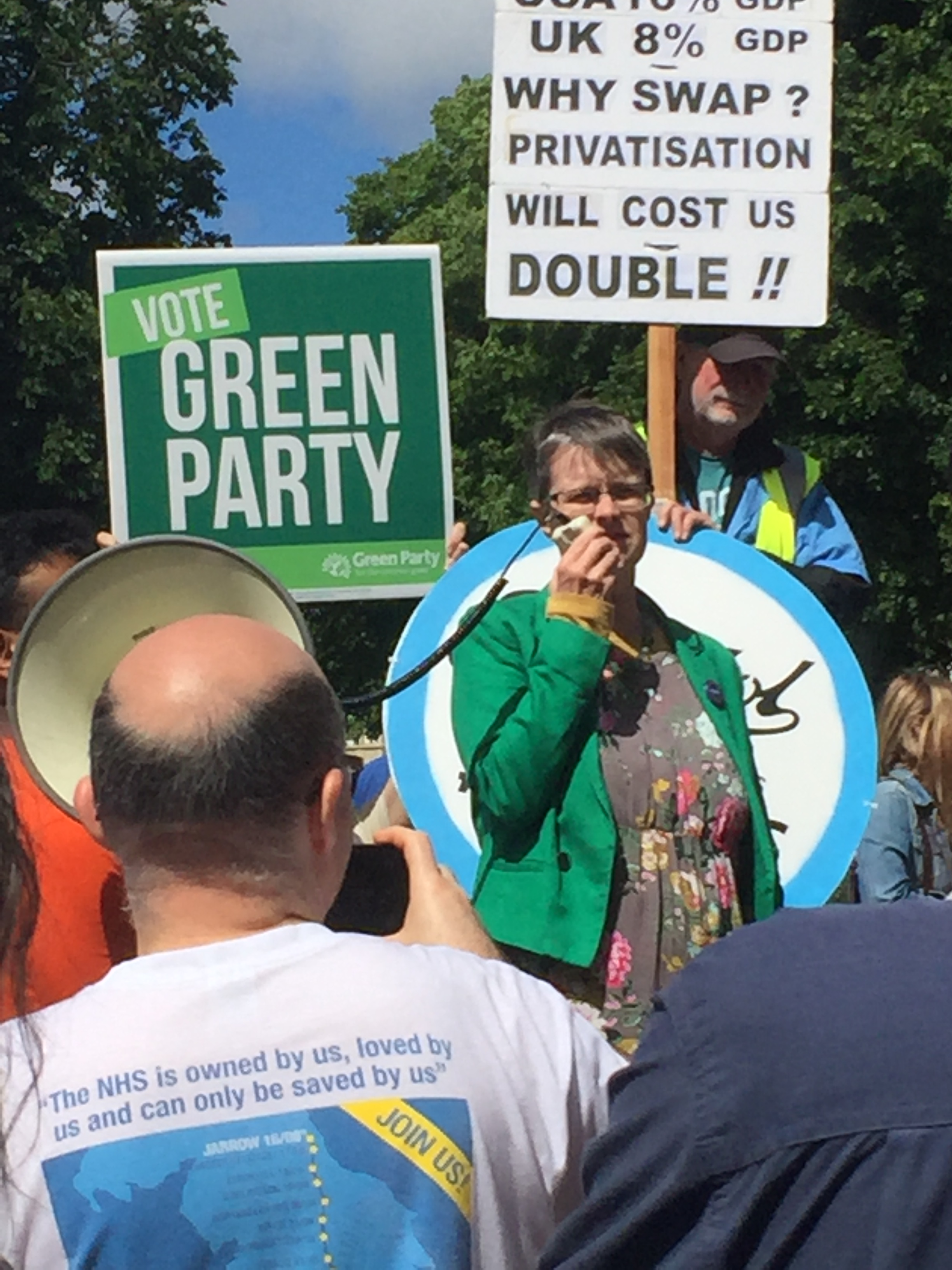 Molly Scott Cato in Bristol in 2017, campaigning to contest the Bristol West seat for the Green Party of England and Wales.